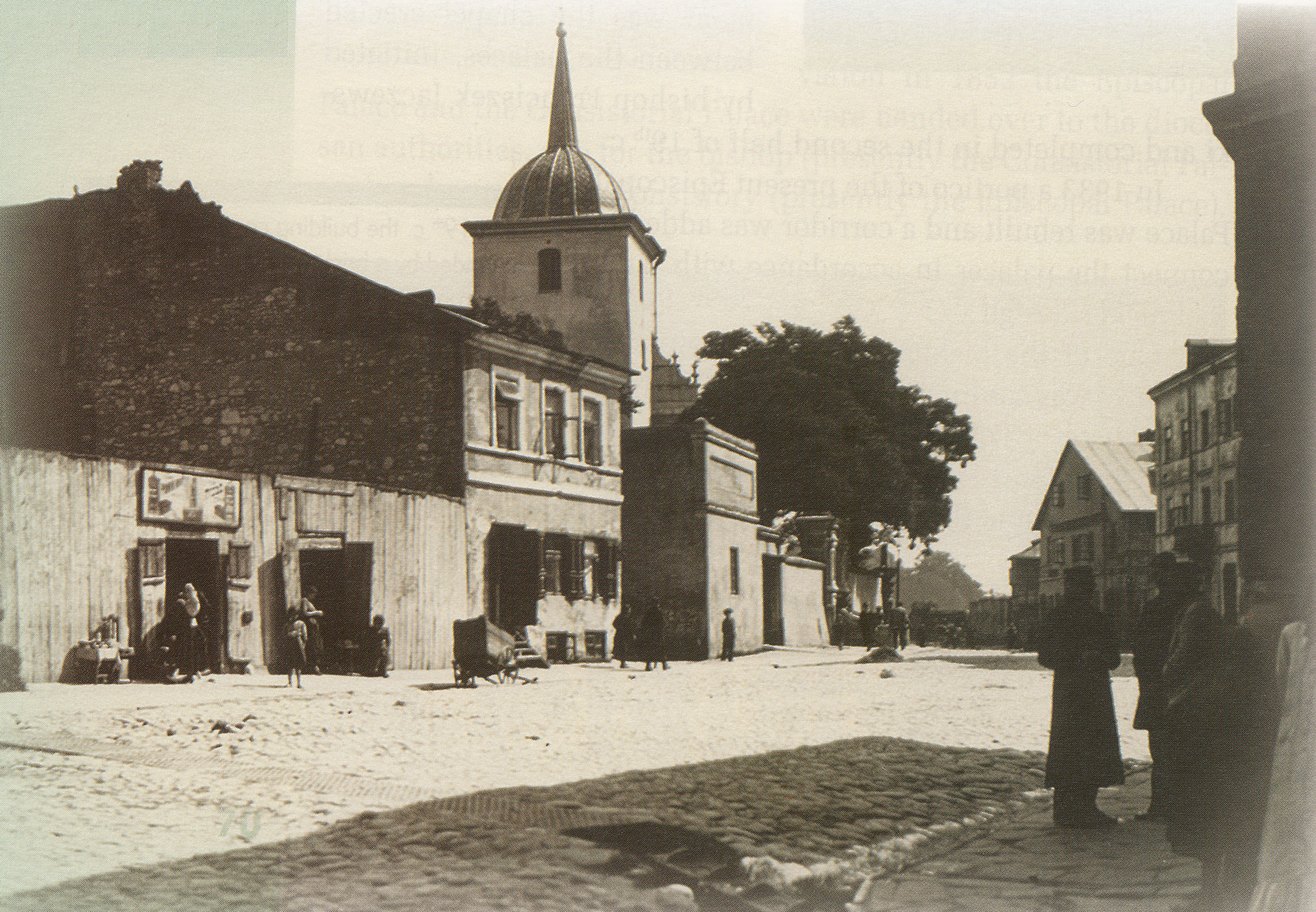 Ruska Street in Jewish Quarter in Lublin Poland